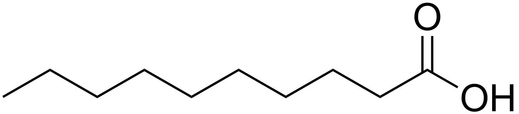 Chemical structure of decanoic acid (capric acid) created with ChemDraw.